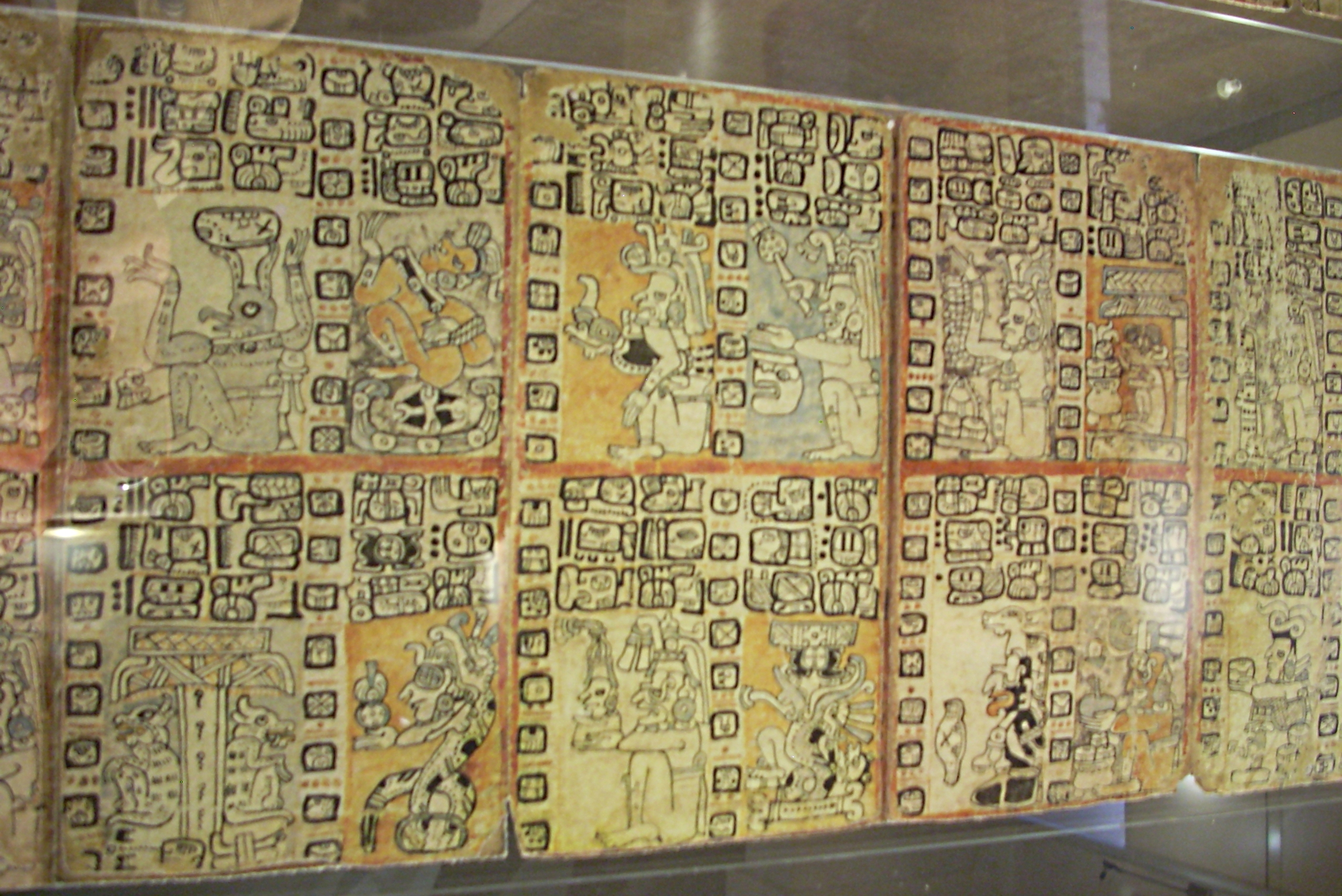 Madrid Codex (replica) in the Museum of the Americas, Madrid. Late Postclassic Maya book.